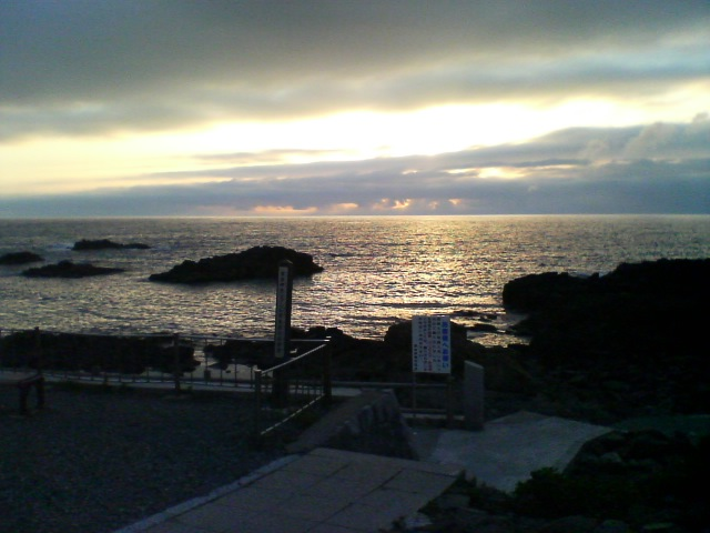 Sunset in Japan Sea, from Ougon-Misaki (黄金岬), Rumoi City (留萌市), Hokkaido Pref., Japan